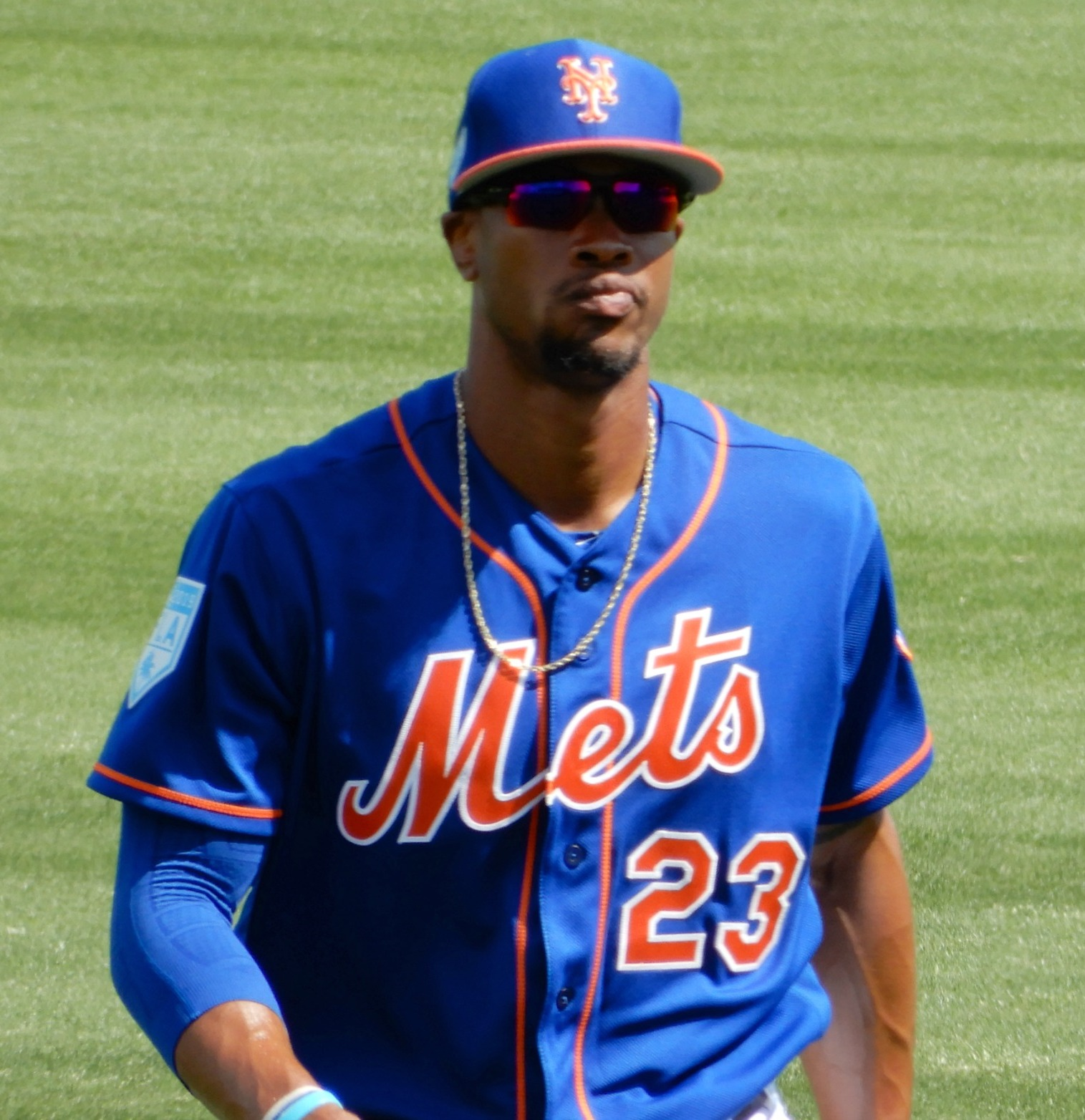 Keon Broxton with the New York Mets during spring training in 2019